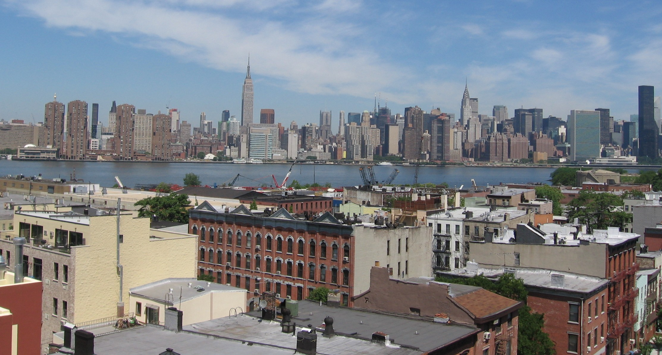 My photo of waterfront in Greenpoint, Brooklyn, in June 2007.